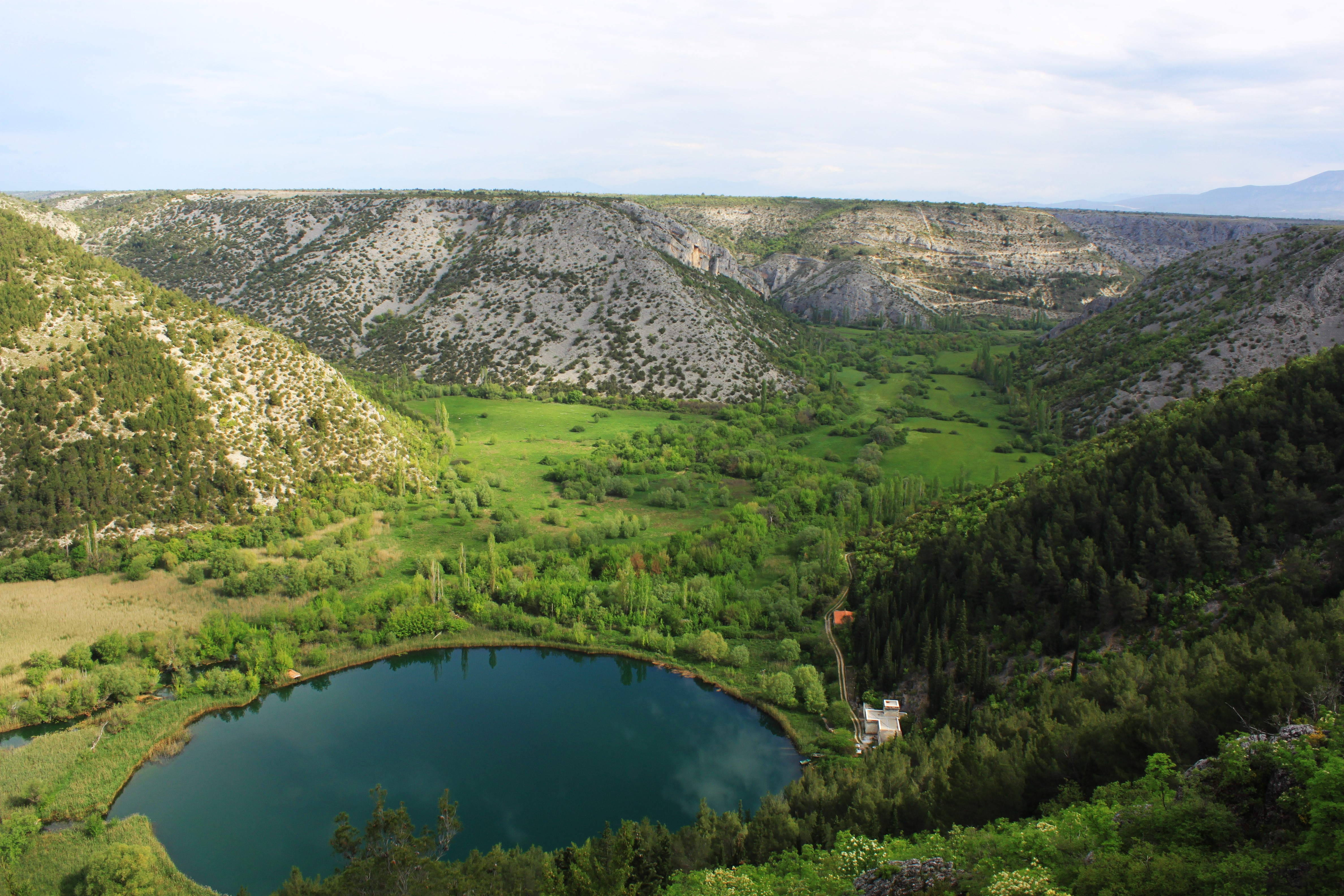 National park "Krka" - Croatia Area name - Ključica - kanjon proširen bočnim kamenjarskim jarugama s udolinom u podnožju